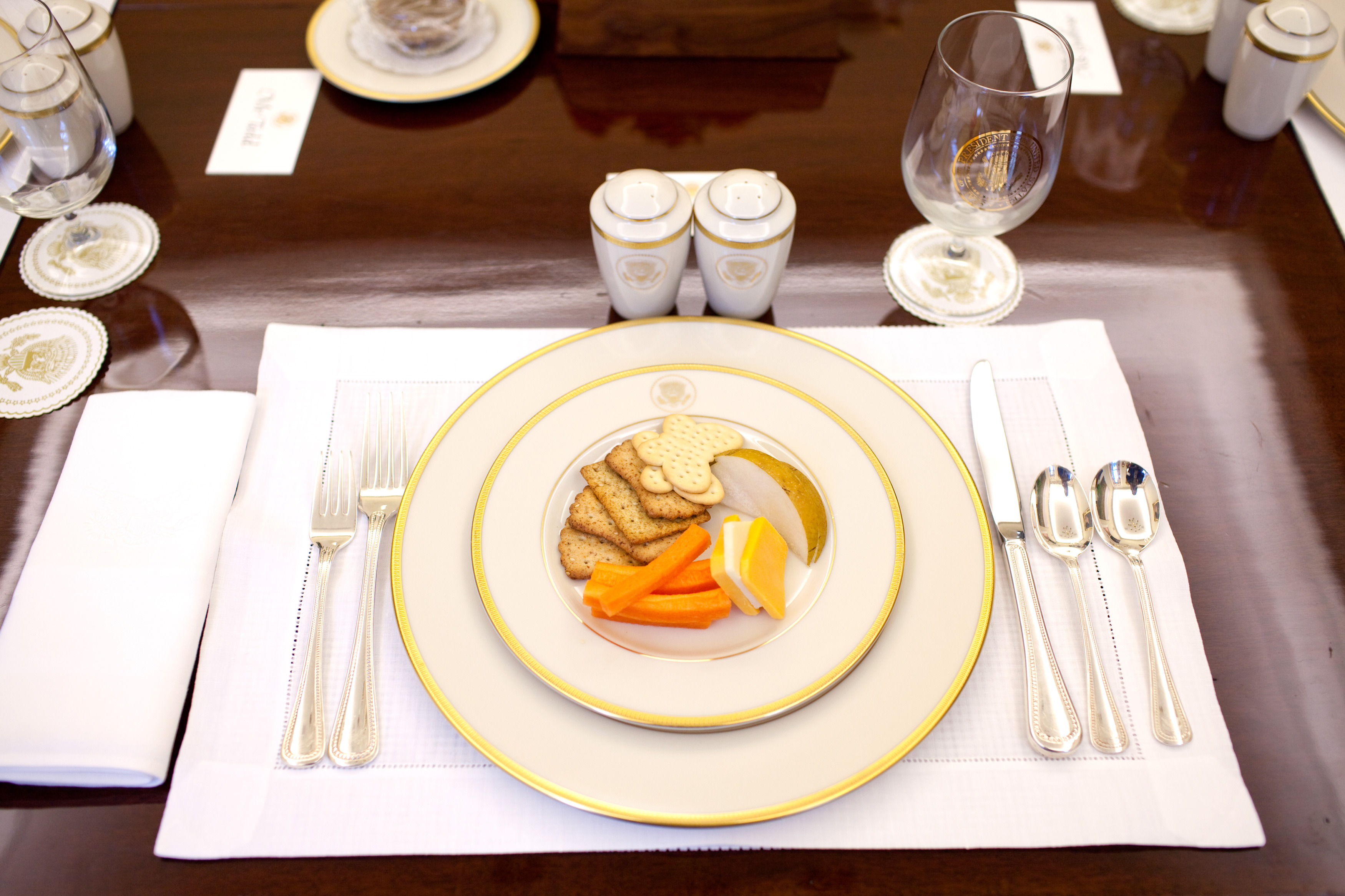 A simple plate of cheese, crackers and carrots is set for for the table setting of the meeting of closed, off-the-record lunch with President Barack Obama and Press Secretary Robert Gibbs in the President's Private Dining Room.